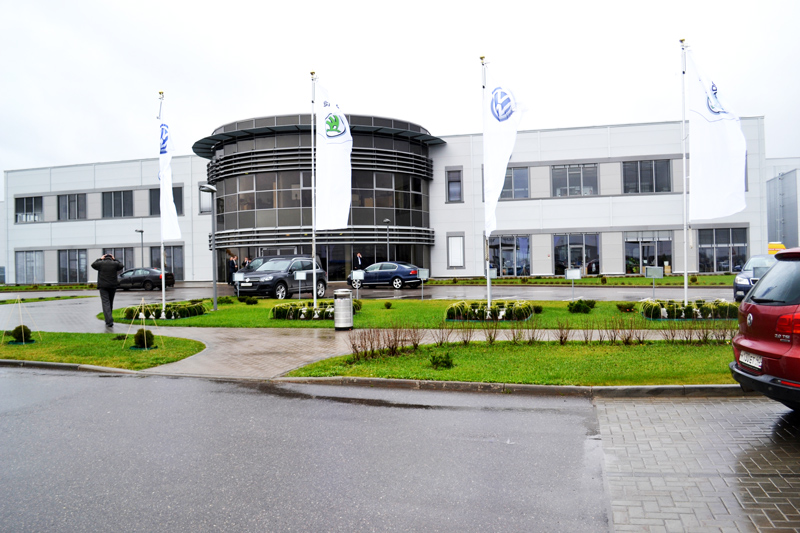 Kaluga.«Volkswagen Group RUS» office.